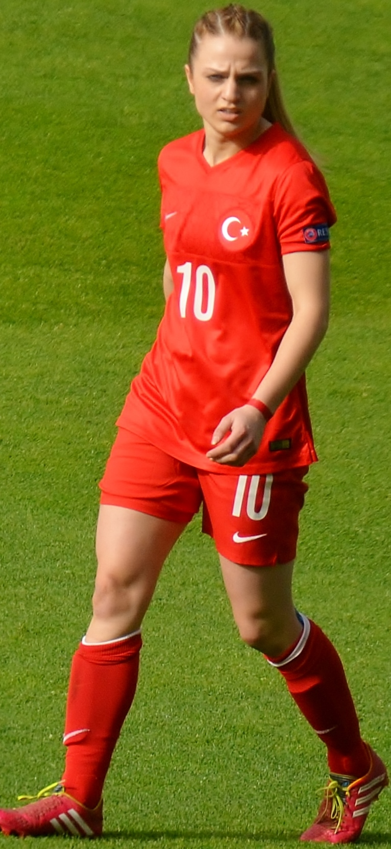 Melike Pekel playing for Turkey women's national at the UEFA Women's Euro 2017 Qualification home match against Germany in Istanbul, Turkey on April 8, 2016